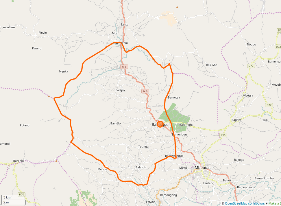 Babadjou in Cameroon ː city boundaries with OSM. This map may be incomplete, and may contain errors. Don't rely solely on it for navigation.